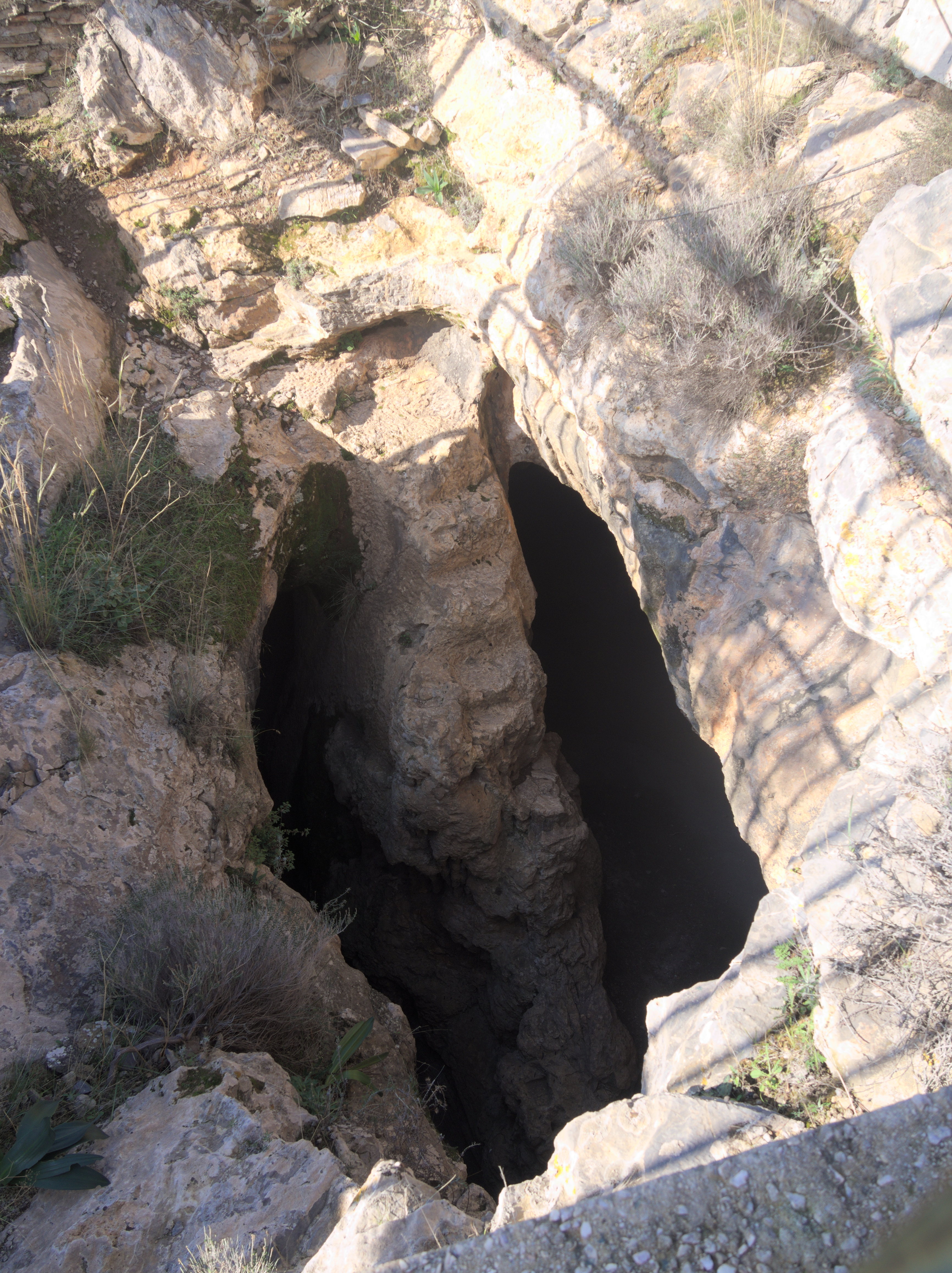 The steep entrance of the Nympholeptus Cave, Vari, Attica, with the carved steps.